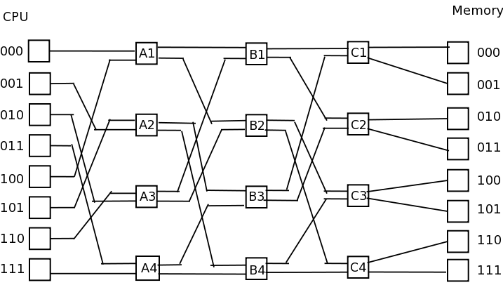 An Omega Network with 8 CPUs and 8 Memory modules.